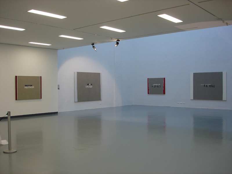 The exhibition Norbert Pümpel, Scientific Disaster was held from 21 June to 3 September 2006 at the Tiroler Landesmuseum Ferdinandeum, Innsbruck